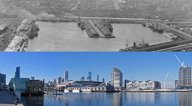 A past and present comparison of Melbourne Docklands urban renewal. A huge area of old disused shipping docks is being transformed into a residential, commercial and office development.